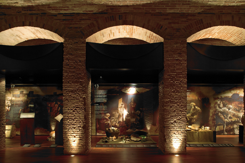 MhV Balansiya showcase